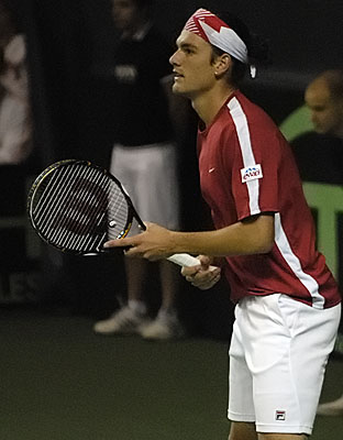 Frank Dancevic (Canada) during 2009 Davis Cup against Ecuador.